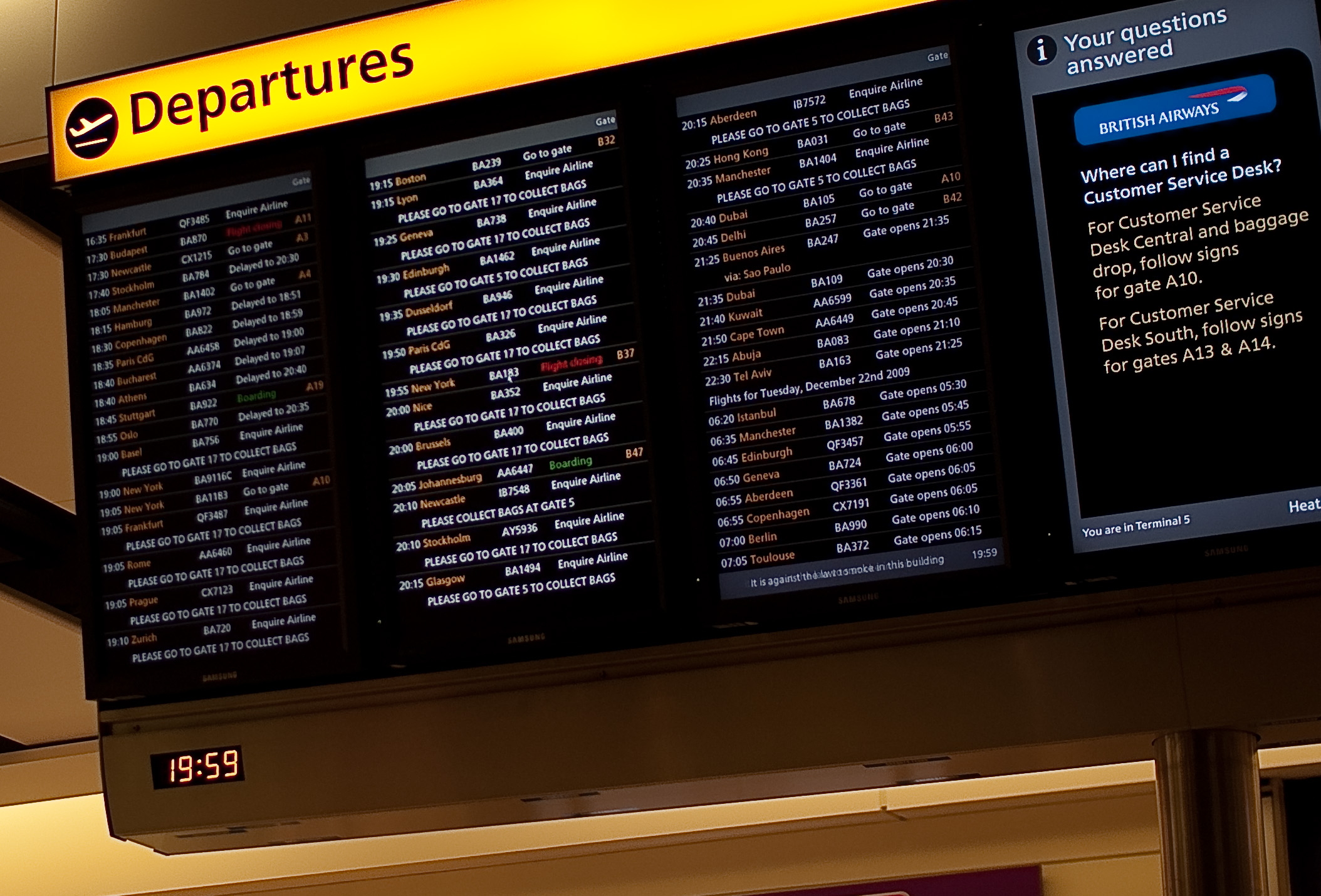 Airport (LHR) Delayed Flights